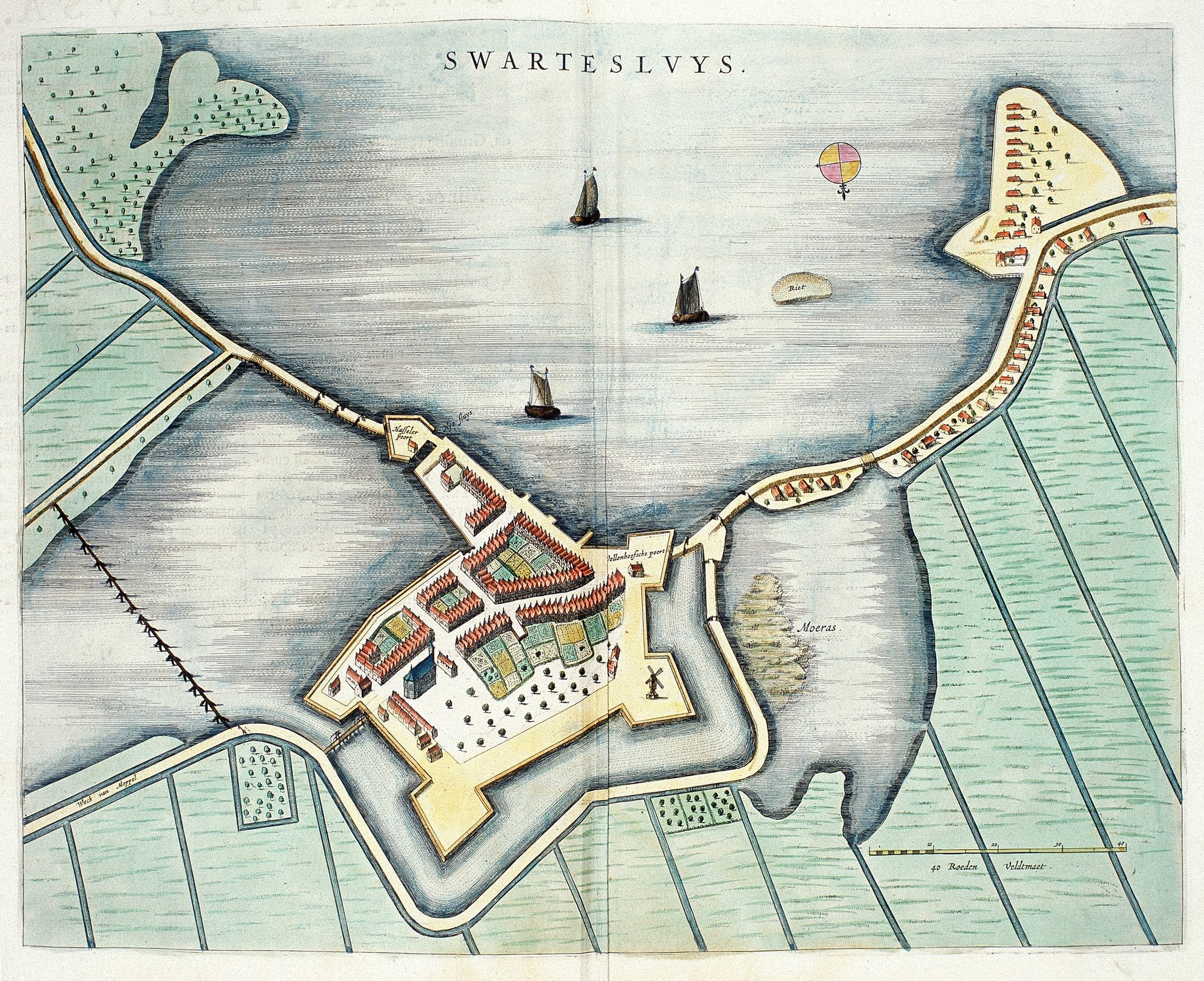 title=Swartesluis